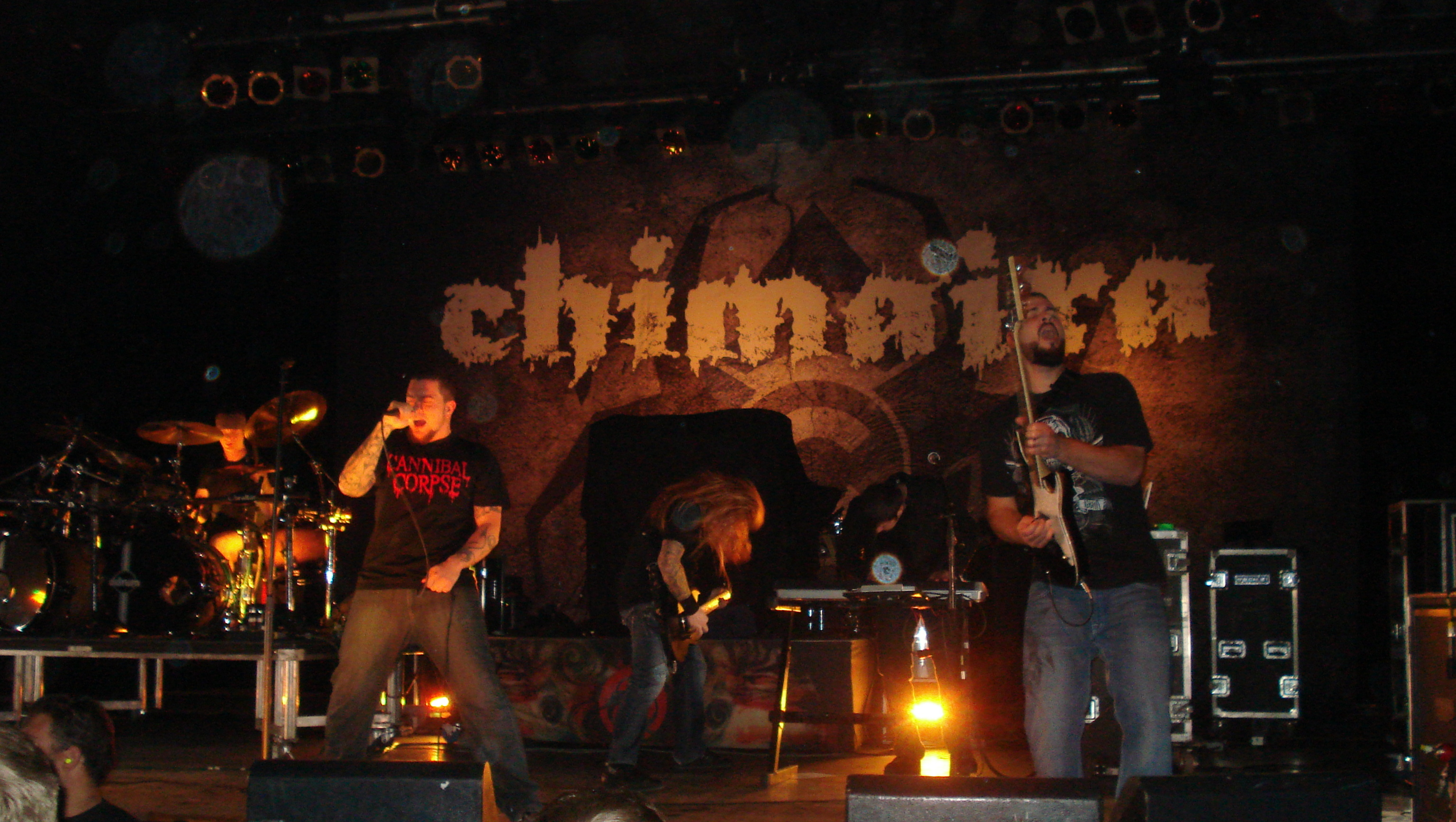 Chimaira play at the Marquee Theatre in Tempe, Arizona on November 30, 2009.